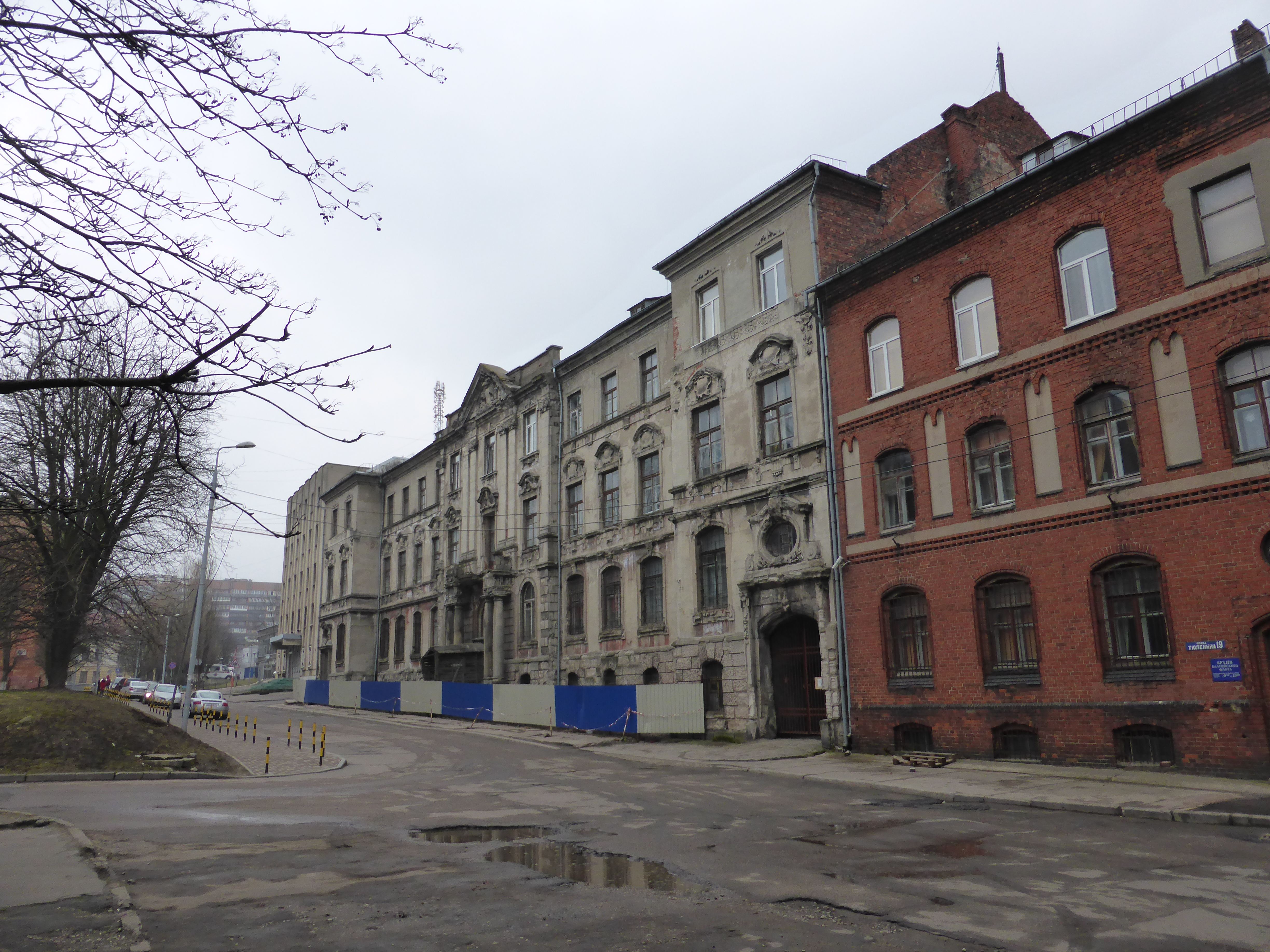 Building East Prussian general credit management